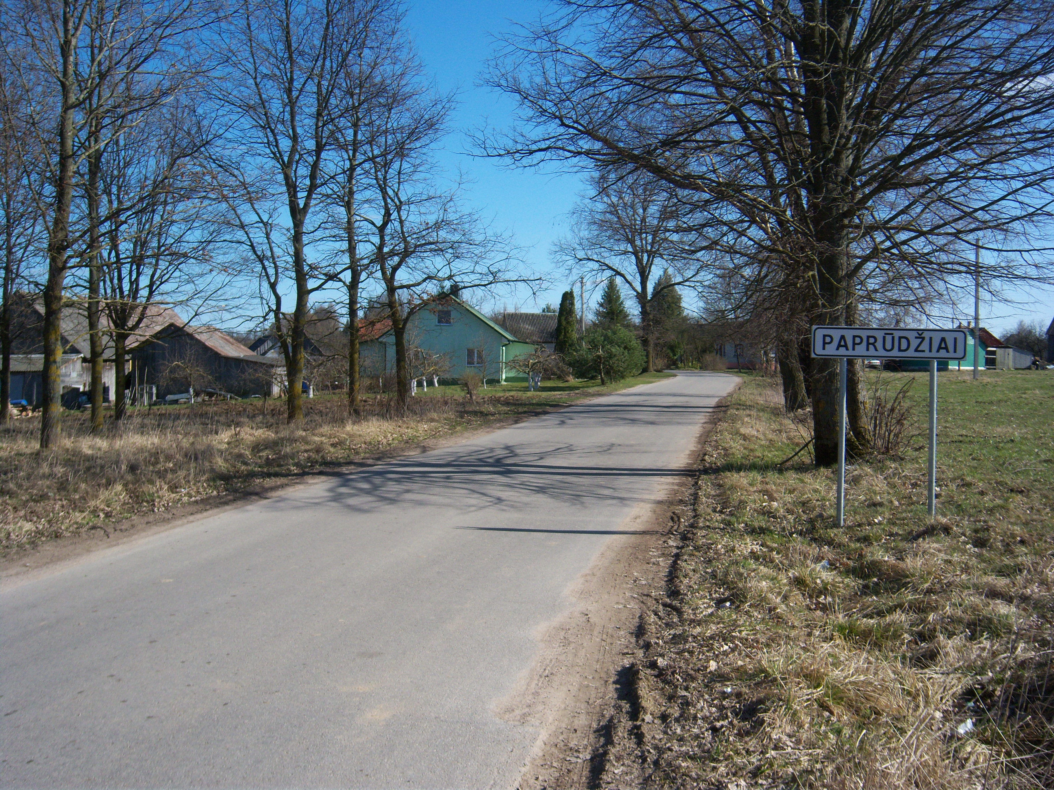 Paprūdžiai, Prienai district, Lithuania